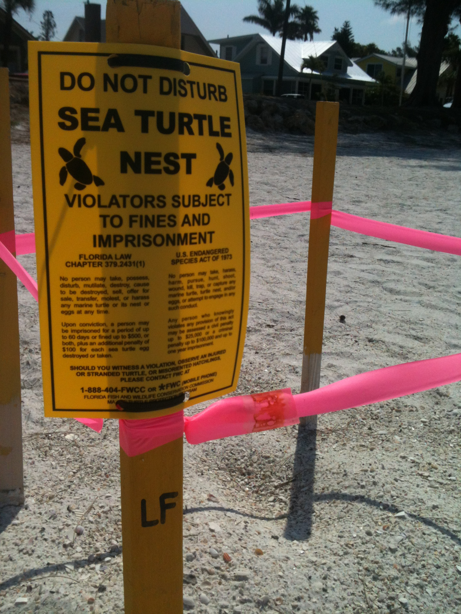 The marking off of a sea turtle nest. Anna Maria, FL. 2012.